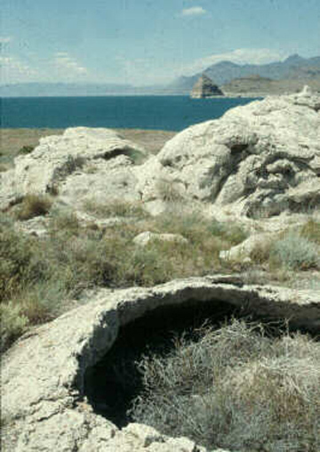 Anaho Island National Wildlife Refuge, on Anaho Island in Pyramid Lake, Washoe County, northwestern Nevada. Anaho Island Refuge is closed to public access to protect colonial nesting birds, and boating is also prohibited within 500 feet of the island. Credits Image taken from - credited to the US Fish and Wildlife Service and therefore in the public domain